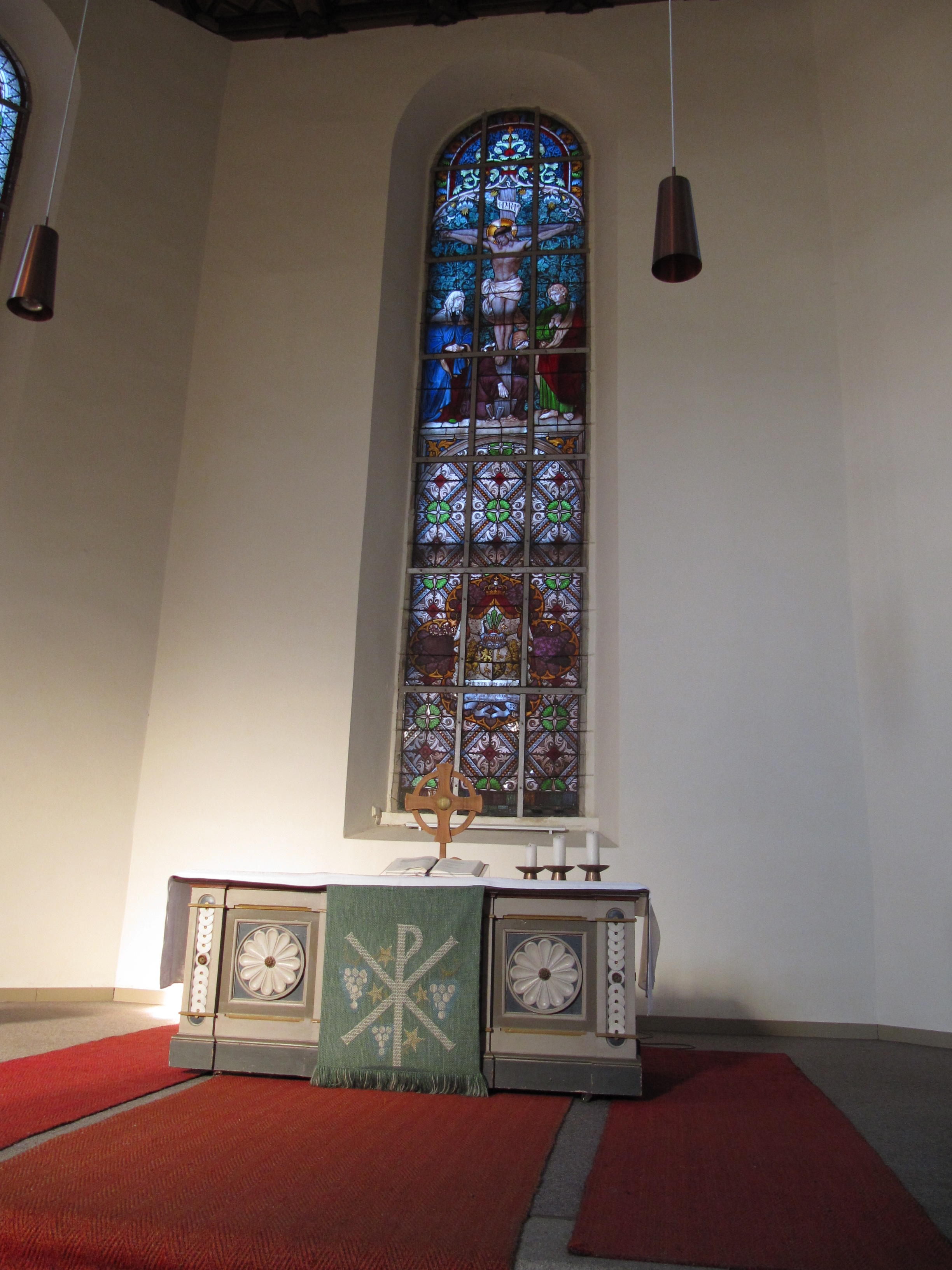 Window of the Kreuzkirche in Zeulenroda, Germany